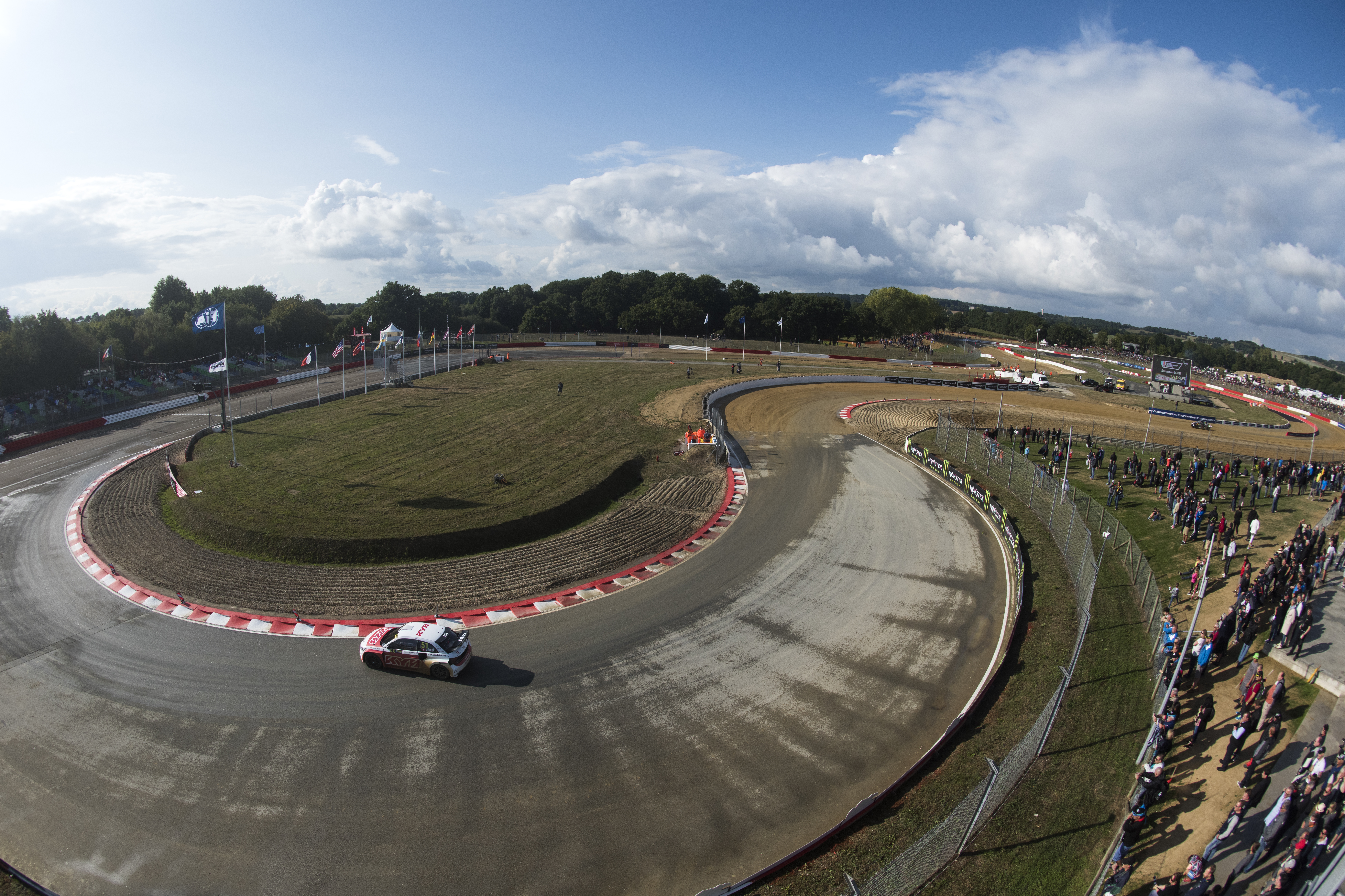 2017 FIA World Rallycross Championship // Round 09, Lohéac // Credit: EKS/Jaanus Ree